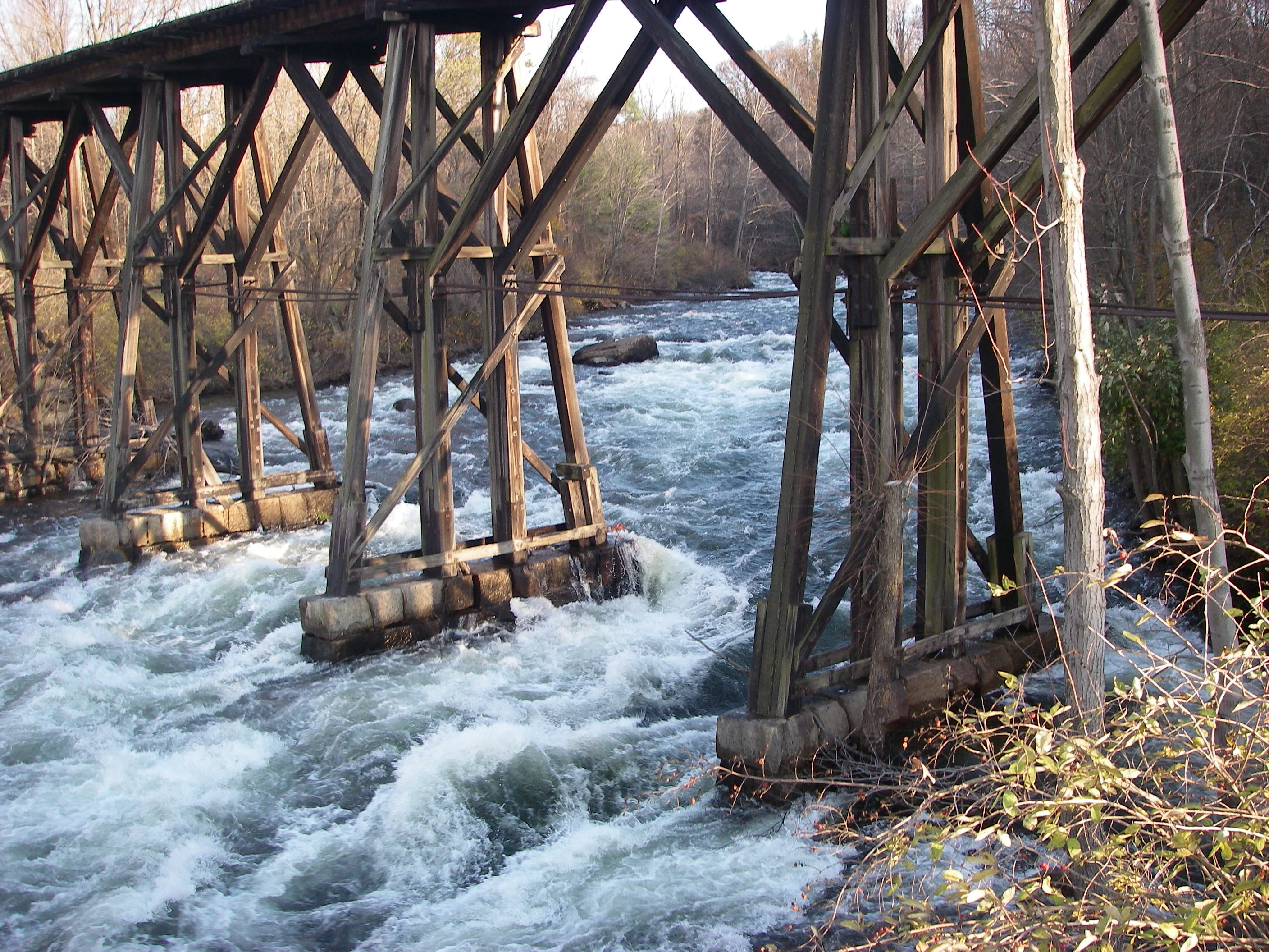 I took this photo...